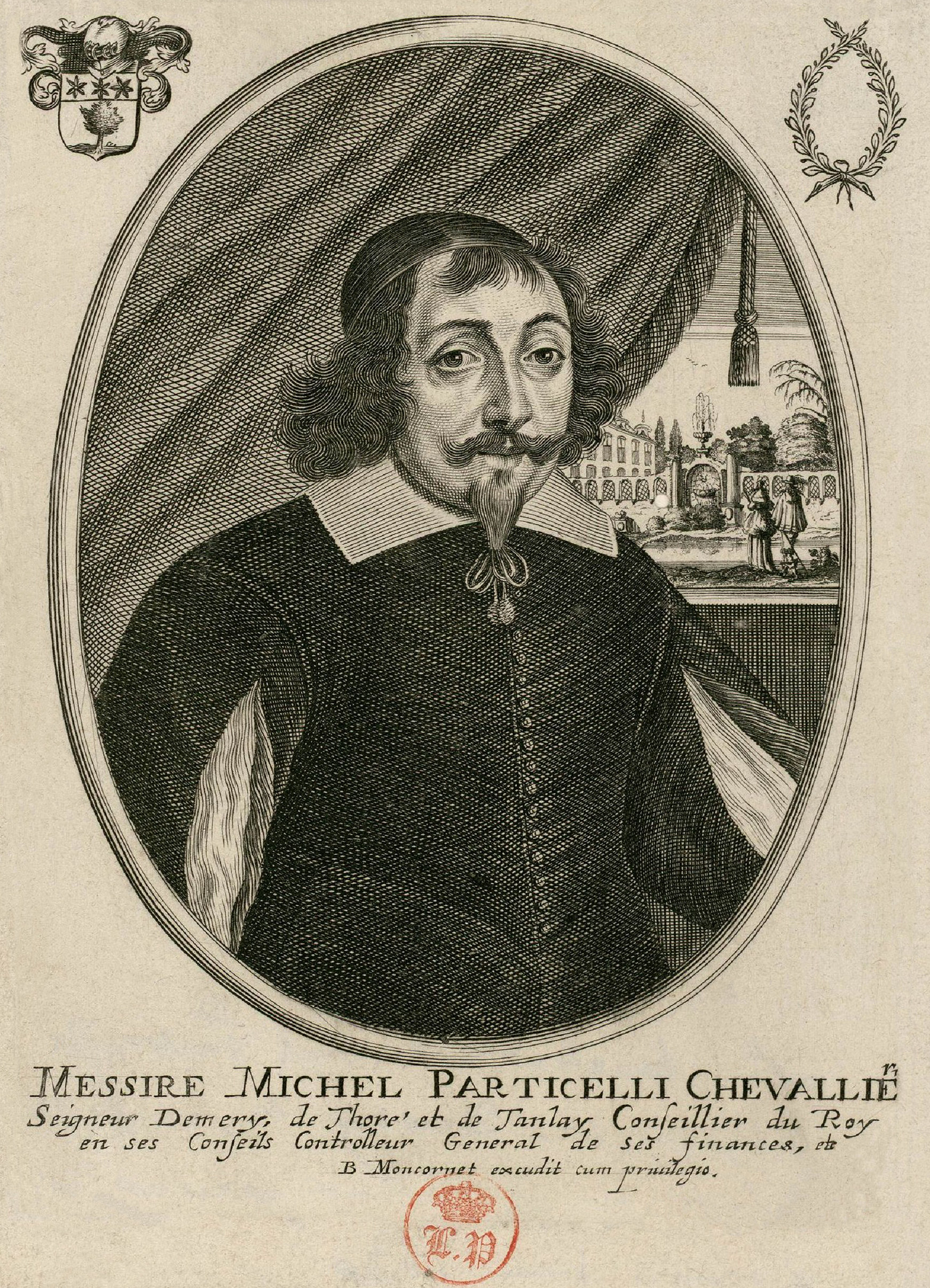 Michel Particelli d'Émery, minister of Louis XIV